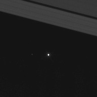 This view from NASA's Cassini spacecraft shows planet Earth as a point of light between the icy rings of Saturn. The spacecraft captured the view on April 12, 2017 at 10:41 p.m. PDT (1:41 a.m. EDT). Cassini was 870 million miles (1.4 billion kilometers) away from Earth when the image was taken. Although far too small to be visible in the image, the part of Earth facing toward Cassini at the time was the southern Atlantic Ocean. Earth's moon is also visible to the left of our planet in a cropped, zoomed-in version of the image (Figure 1). The rings visible here are the A ring (at top) with the Keeler and Encke gaps visible, and the F ring (at bottom). During this observation Cassini was looking toward the backlit rings, making a mosaic of multiple images, with the sun blocked by the disk of Saturn. Seen from Saturn, Earth and the other inner solar system planets are all close to the sun, and are easily captured in such images, although these opportunities have been somewhat rare during the mission. The F ring appears especially bright in this viewing geometry. The Cassini mission is a cooperative project of NASA, ESA (the European Space Agency) and the Italian Space Agency. The Jet Propulsion Laboratory, a division of the California Institute of Technology in Pasadena, manages the mission for NASA's Science Mission Directorate, Washington. The Cassini orbiter and its two onboard cameras were designed, developed and assembled at JPL. The imaging operations center is based at the Space Science Institute in Boulder, Colorado. For more information about the Cassini-Huygens mission visit and The Cassini imaging team homepage is at